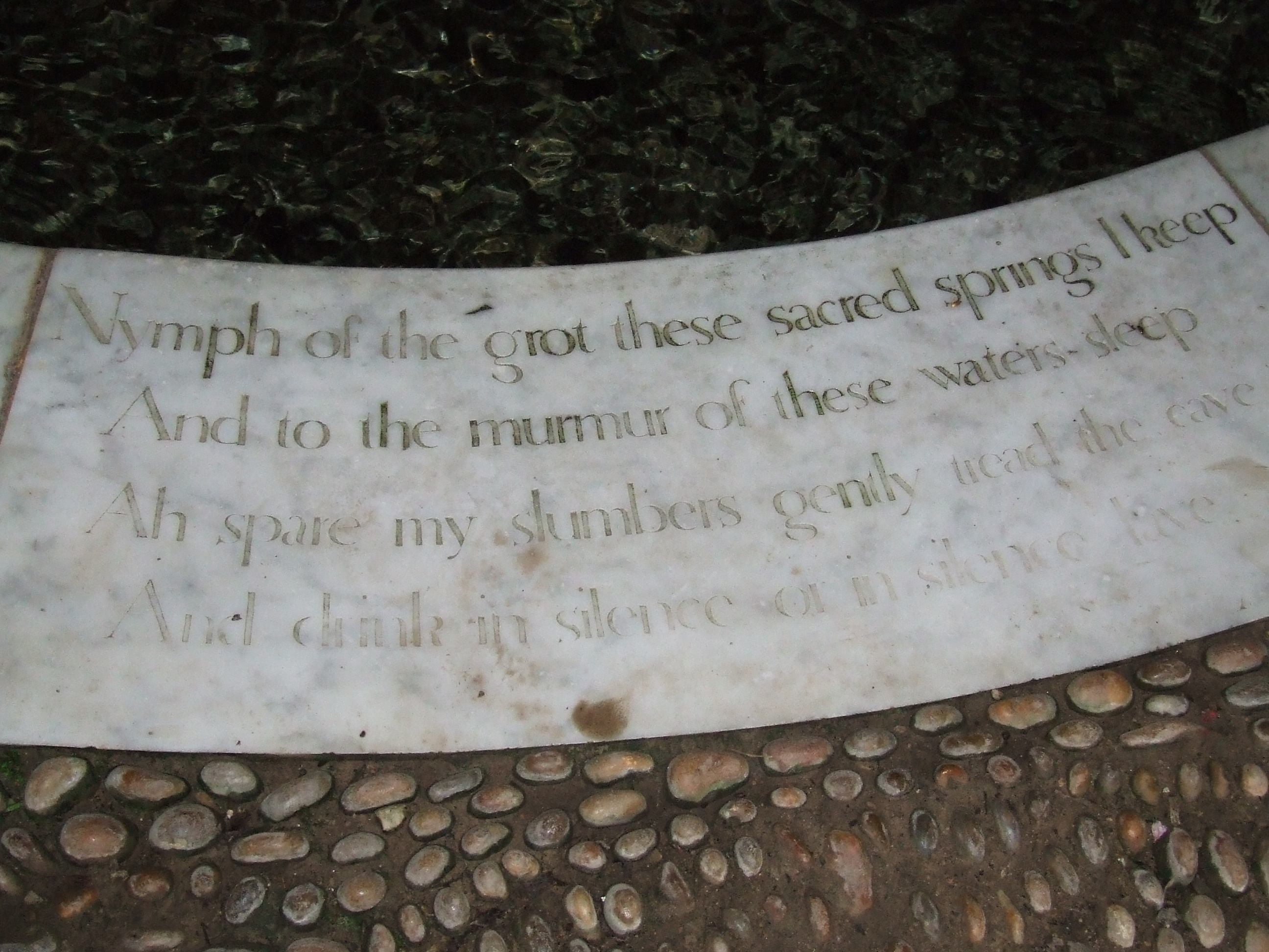 "Nymph of the grot" inscription at Stourhead. The National Trust's corporate font is based on this text. Unfortunately the original was destroyed by mistake in the 1960s, so this is a replica.